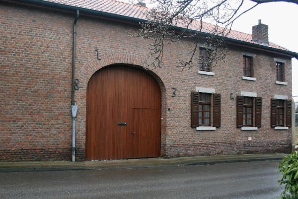 Cultural heritage monument No. 1 in Selfkant